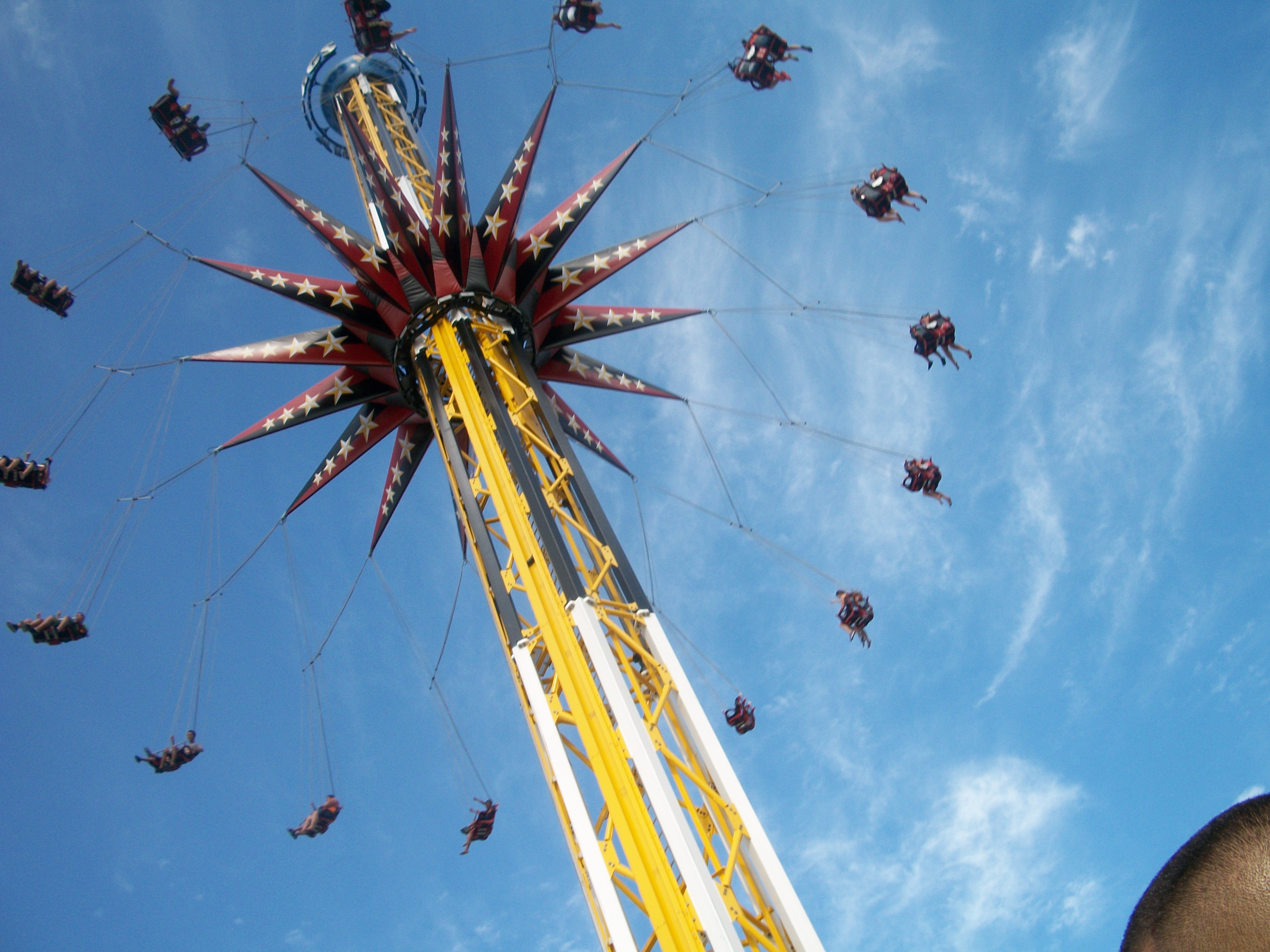 SkyScreamer at Six Flags Fiesta Texas on May 26, 2012! For more pictures go to